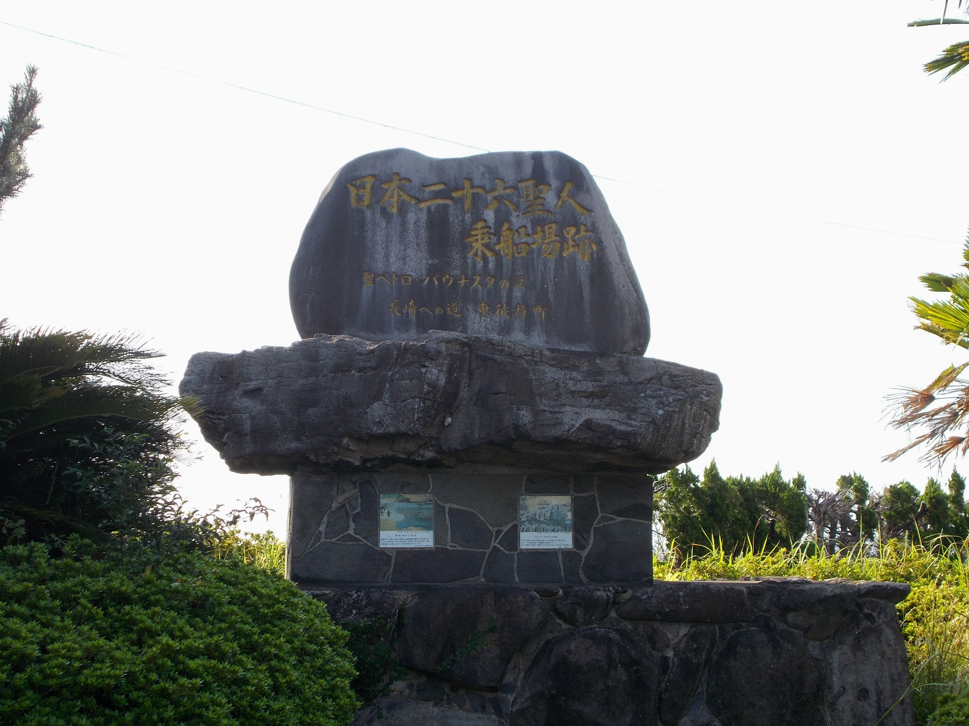 The site of Twenty-six martyrs embankment place in Higashisonogi, Nagasaki, Japan